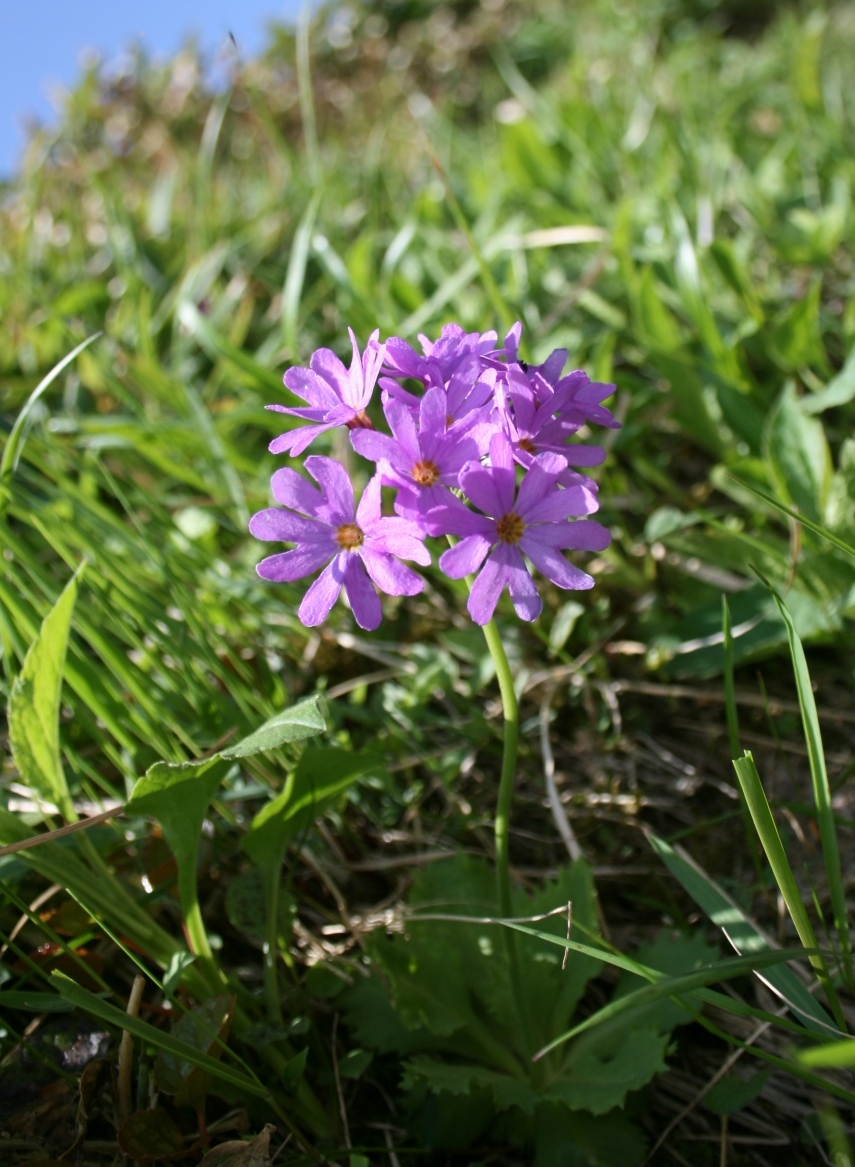 Primula_cuneifolia_in_Sannomine